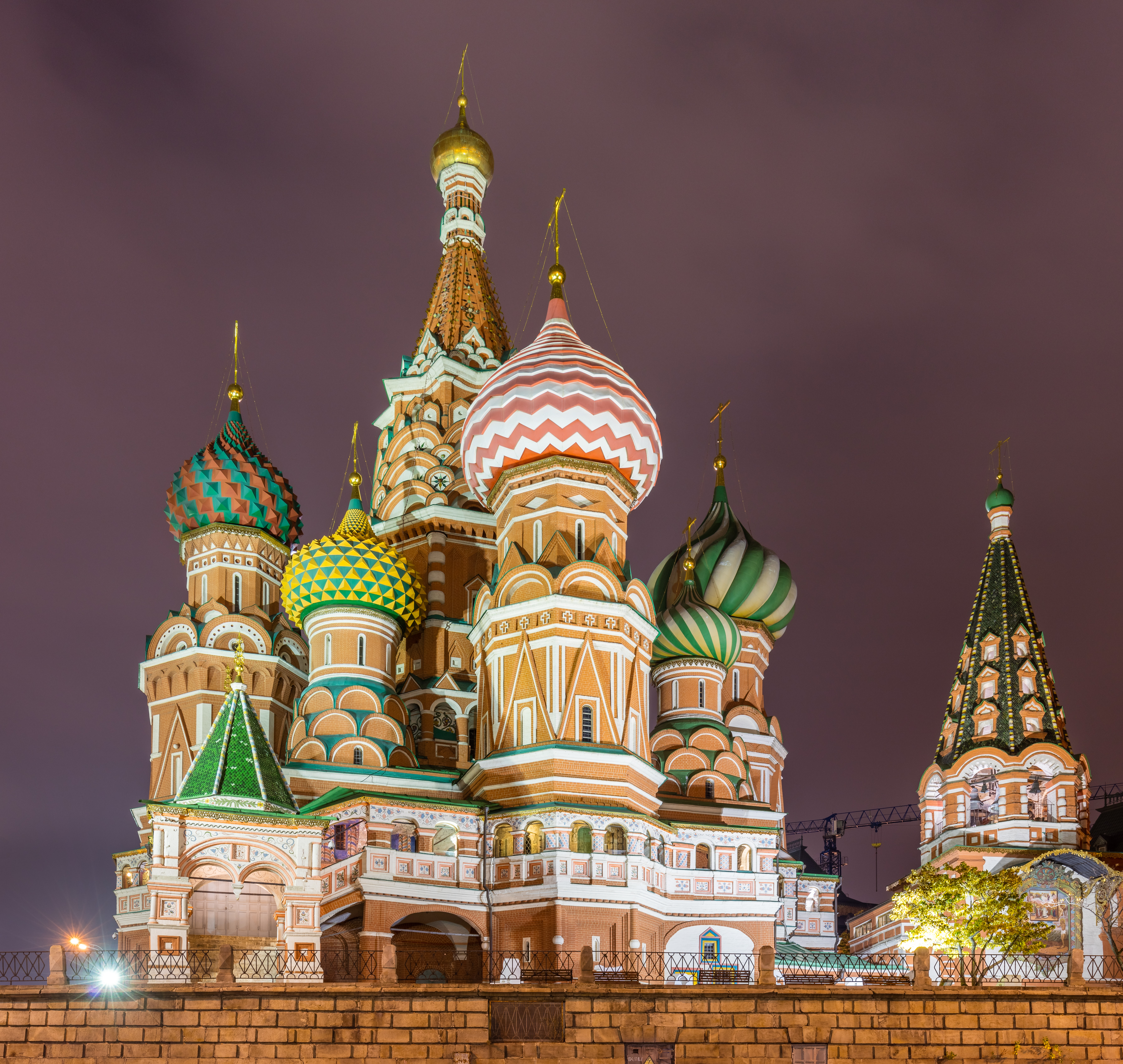 Saint Basil's Cathedral, Moscow, Russia